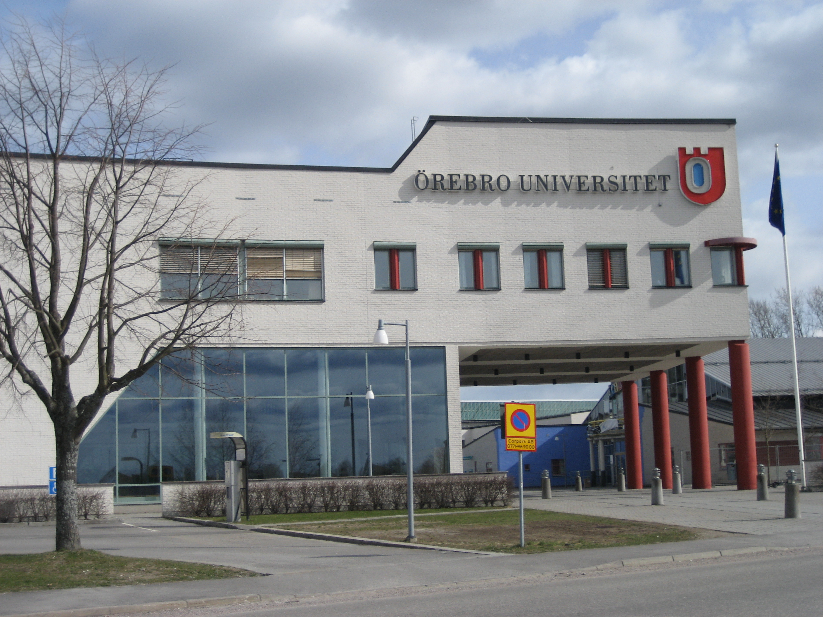 Örebro University, Sweden